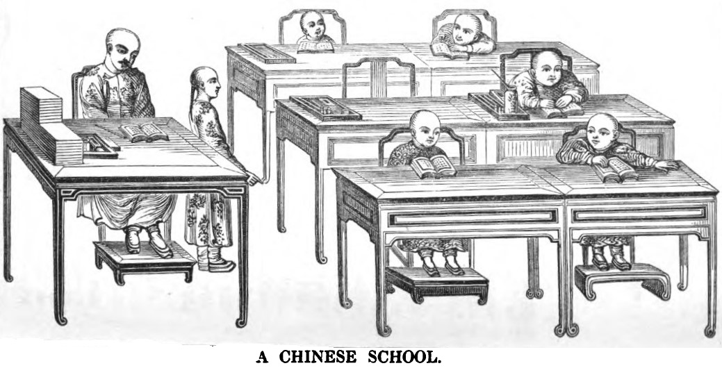 A Chinese School (IV, October 1847, p.108)